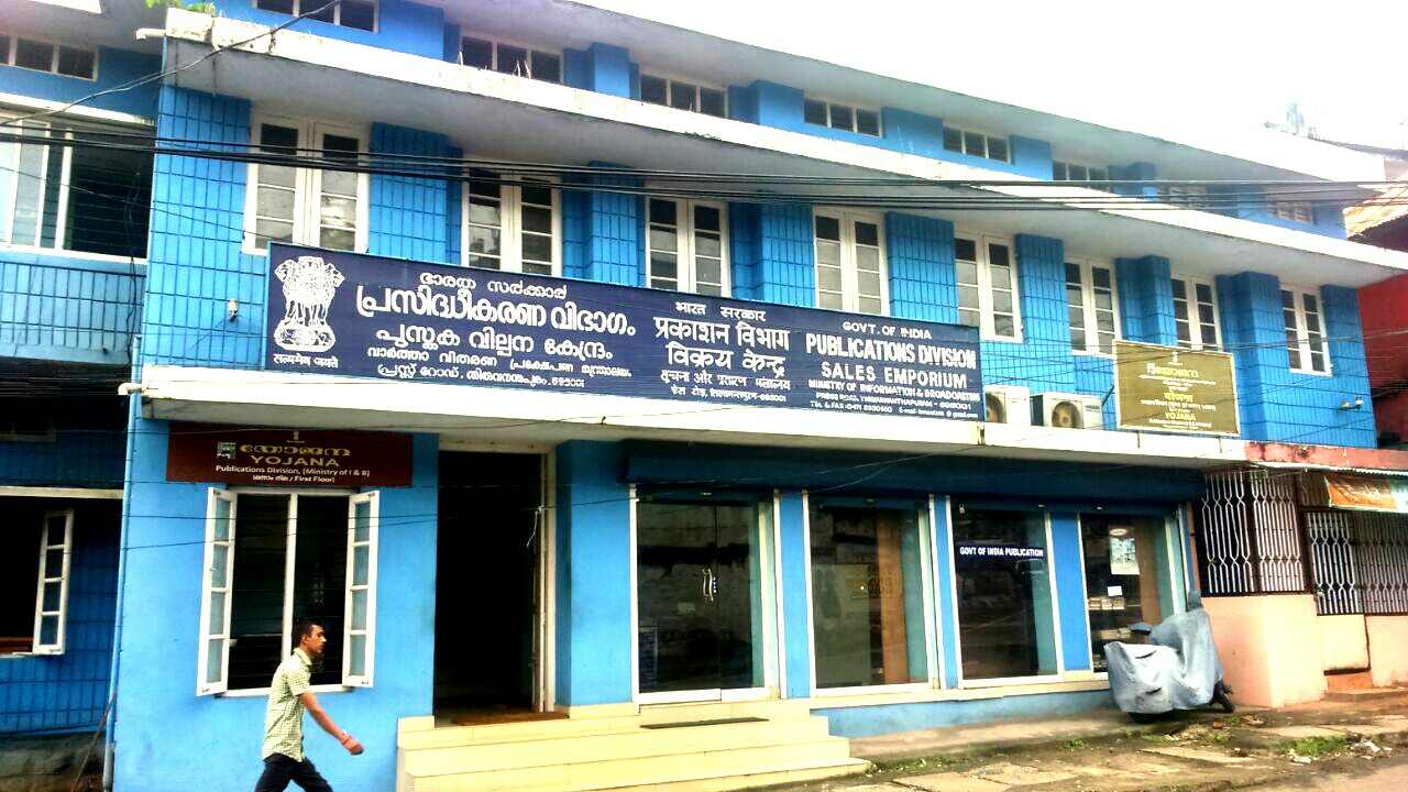 Yojana Malayalam